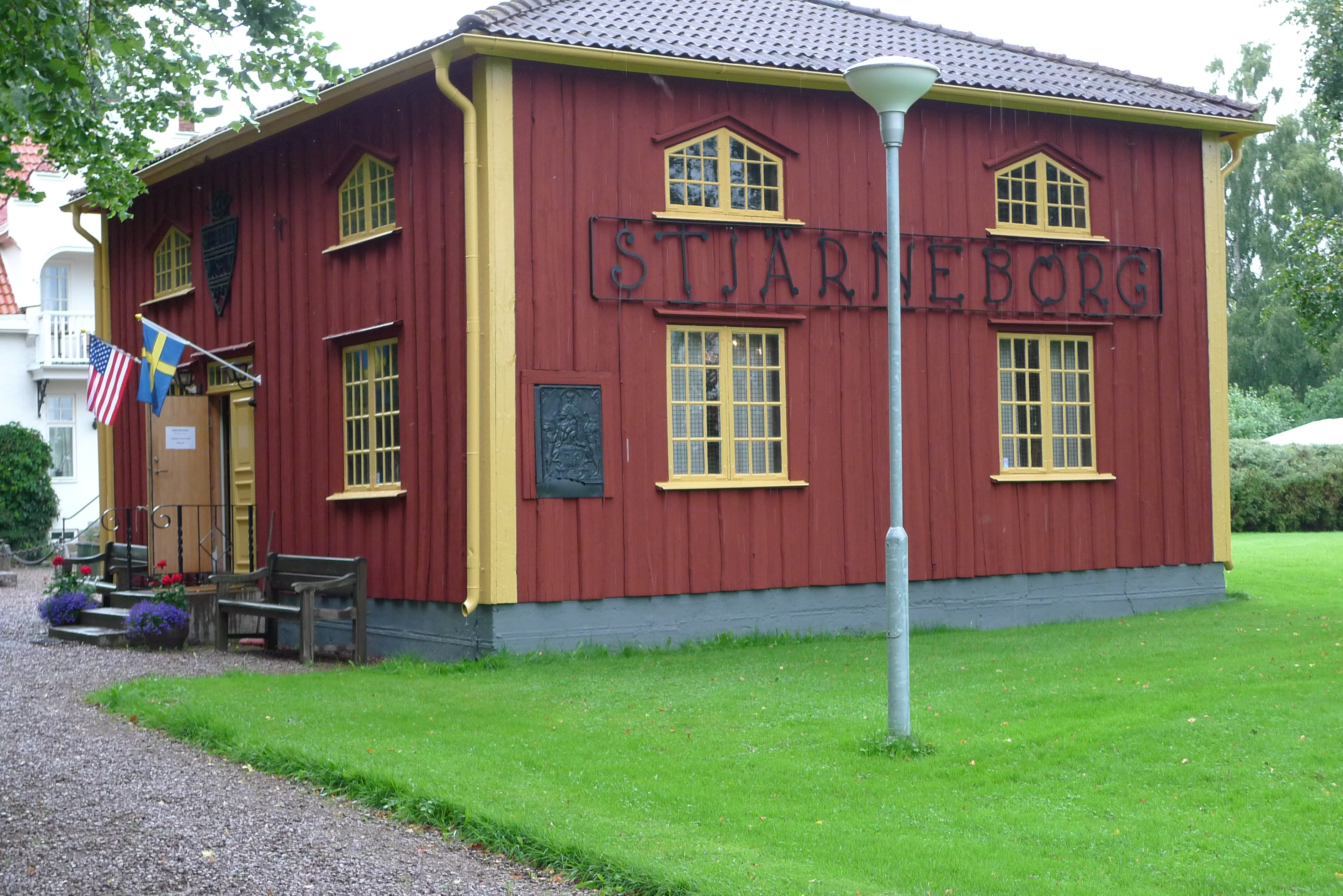 The rural museum of Stjärneborg